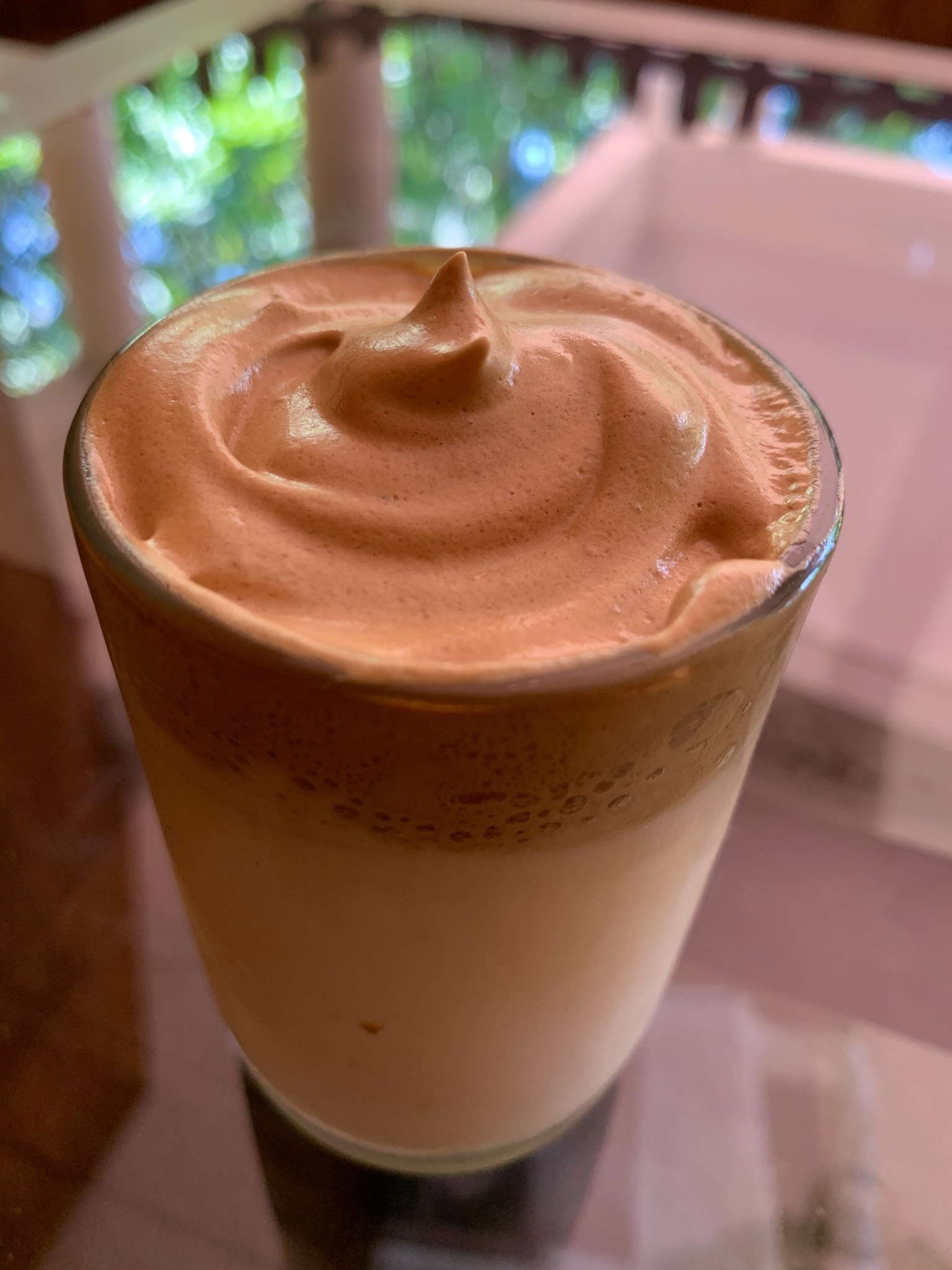 Dalgona Coffee prepared at home